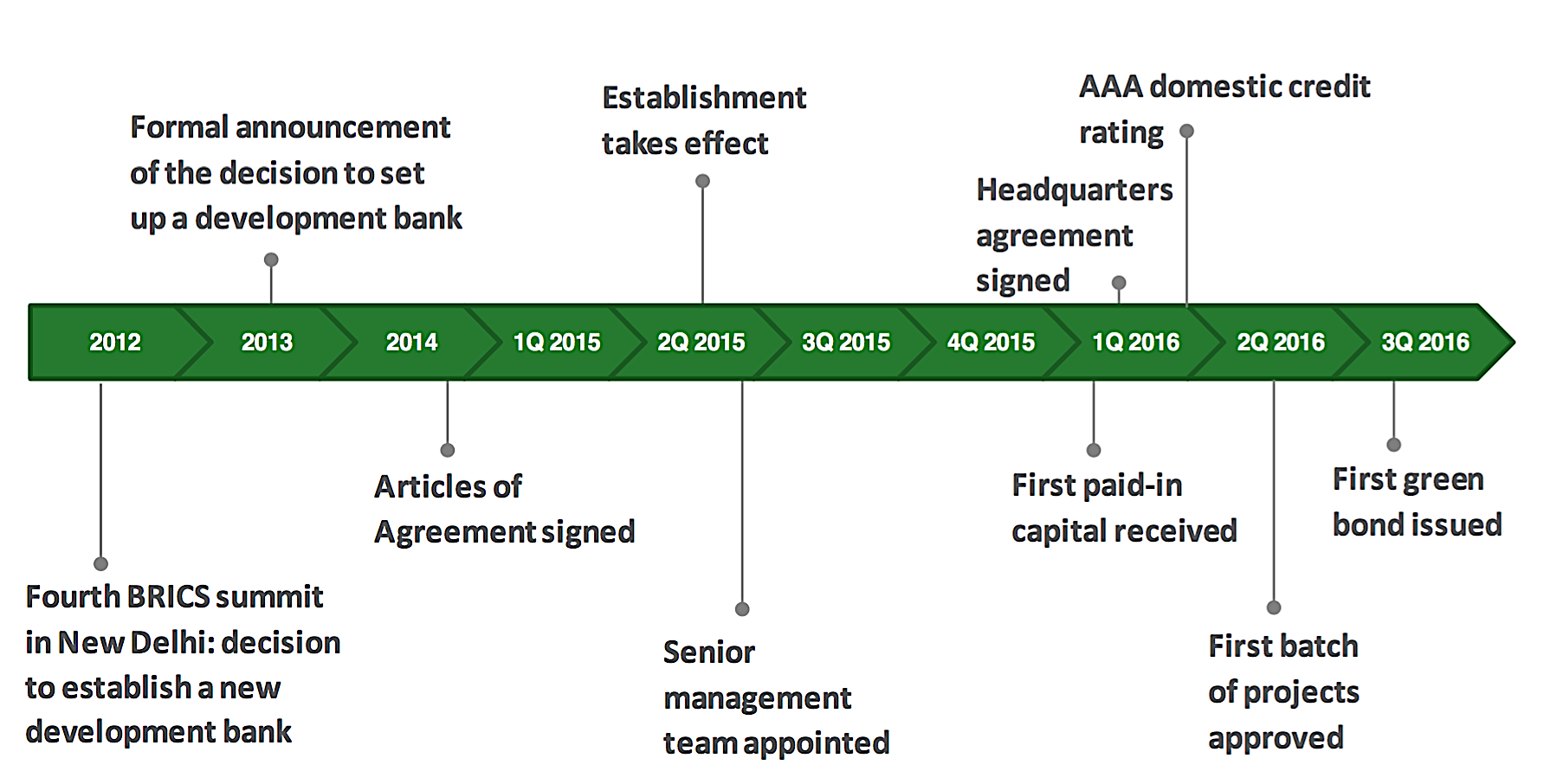 Milestones during the creation of the NDB